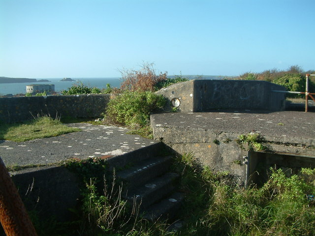 Gun emplacement from WW2 The substantial WW2 fortifications are very much in evidence at South Hook Point.